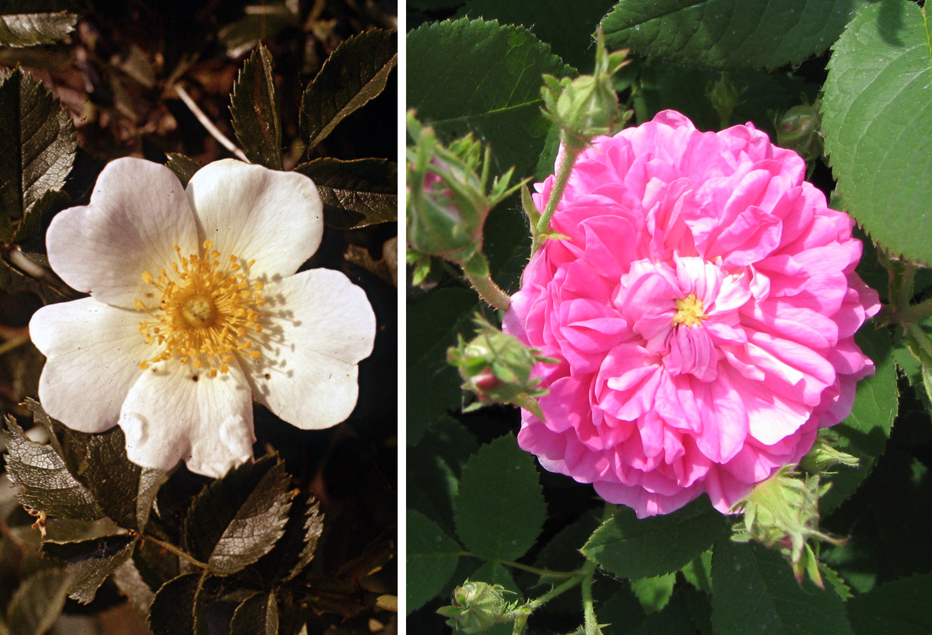 Wild rose vs cultigen